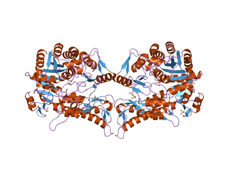 Cartoon representation of the molecular structure of protein registered with 1eg7 code.